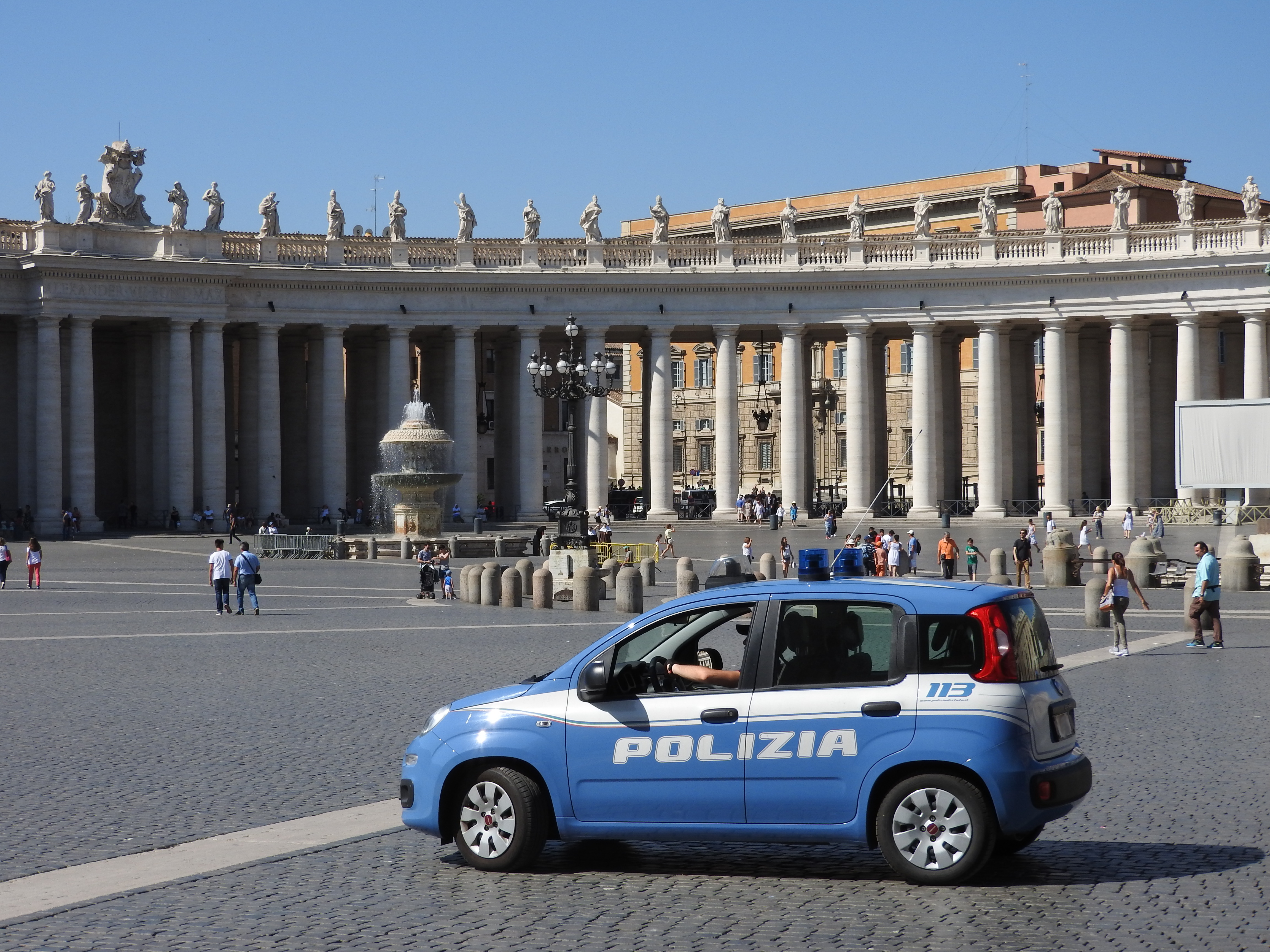 Italian Polizia in Saint Peter's square, Vatican city 2017.